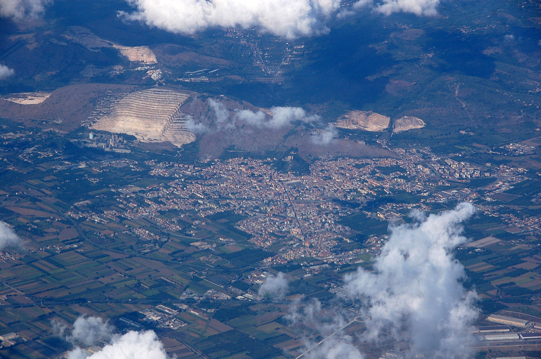 Aerial photograph of Maddaloni